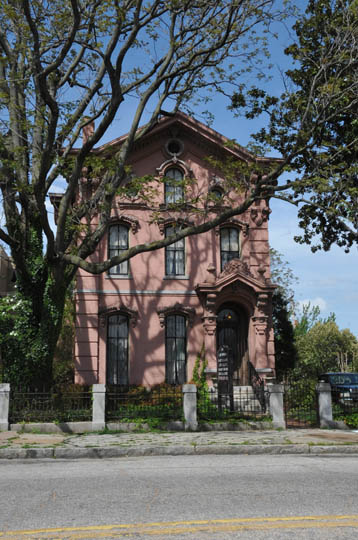 1875 VICTORIAN ITALIANATE; THE TOOF FAMILY CAME FROM CANADA IN THE MID 1850’S. JOHN S. TOOF WAS SECRETARY OF THE COTTON EXCHANGE AND ORGANIZED THE CHAMBER OF COMMERCE AND MERCHANT’S EXCHANGE